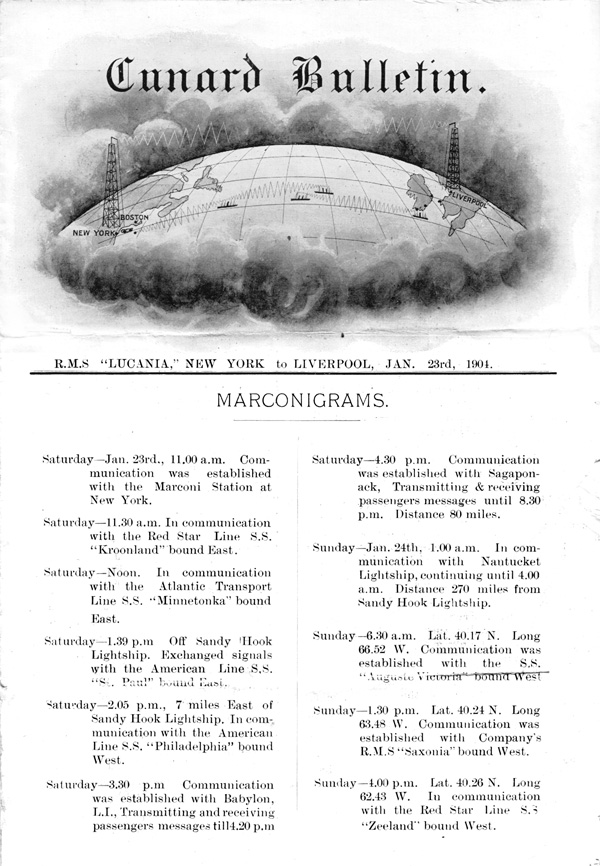 Cover of Cunard Line Daily Bulletin, 1904